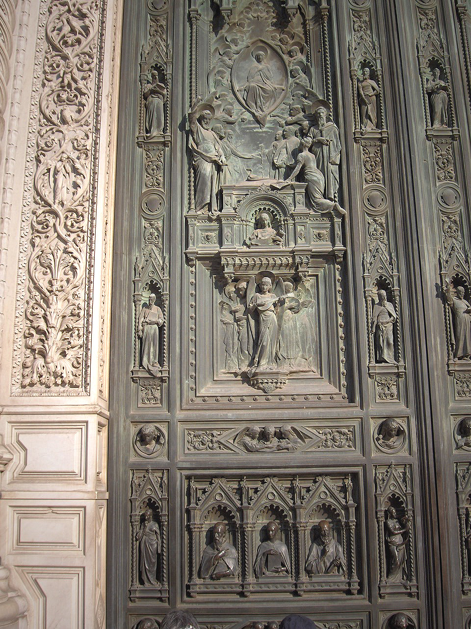 Augusto Passaglia (1838-1918). Relief from the left door of the middle portal of the Duomo Santa Maria del Fiore; Florence, Italy Own photo - photo made on 12 October 2005